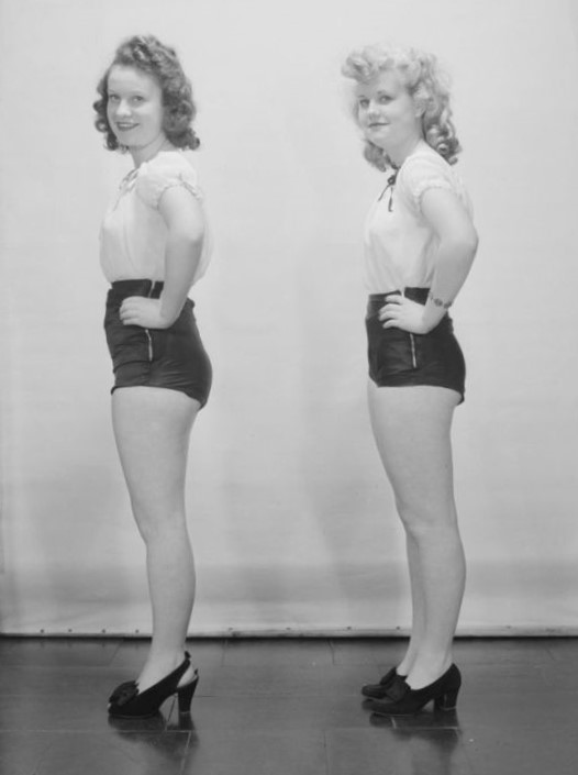 We see Lorraine and Eleanor Lanthier. They wear shorts and blouse.